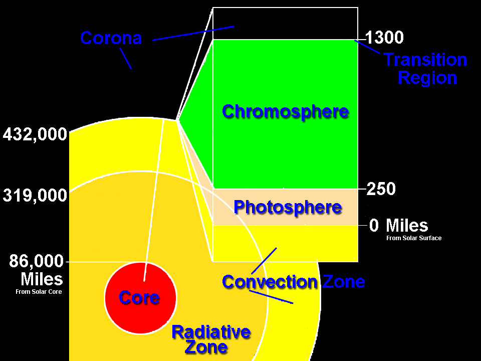 IRIS will observe the lowest part of the sun's atmosphere: the chromosphere, an expanse of ionized gas or plasma lying just above the sun's surface, and the transition region, where the chromosphere transitions into the even hotter corona above. This interface region lies at the core of many outstanding questions about the sun's atmosphere, such as how the sun creates giant explosions like solar flares or coronal mass ejections (CMEs), or how solar material in the corona reaches millions of degrees, several thousand times hotter than the surface of the sun itself. Understanding the interface between the photosphere and corona remains a fundamental challenge in solar and heliospheric science.